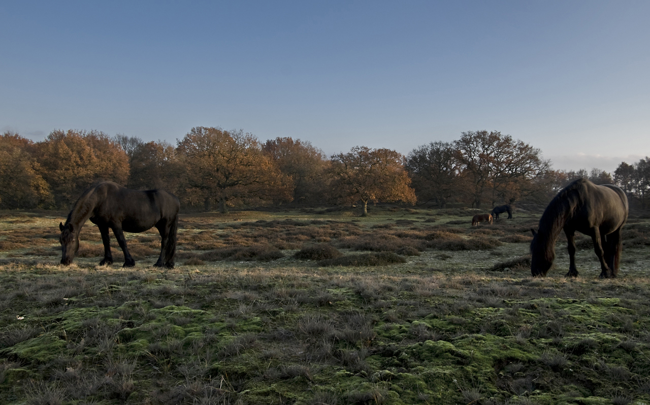 Borkener Paradies